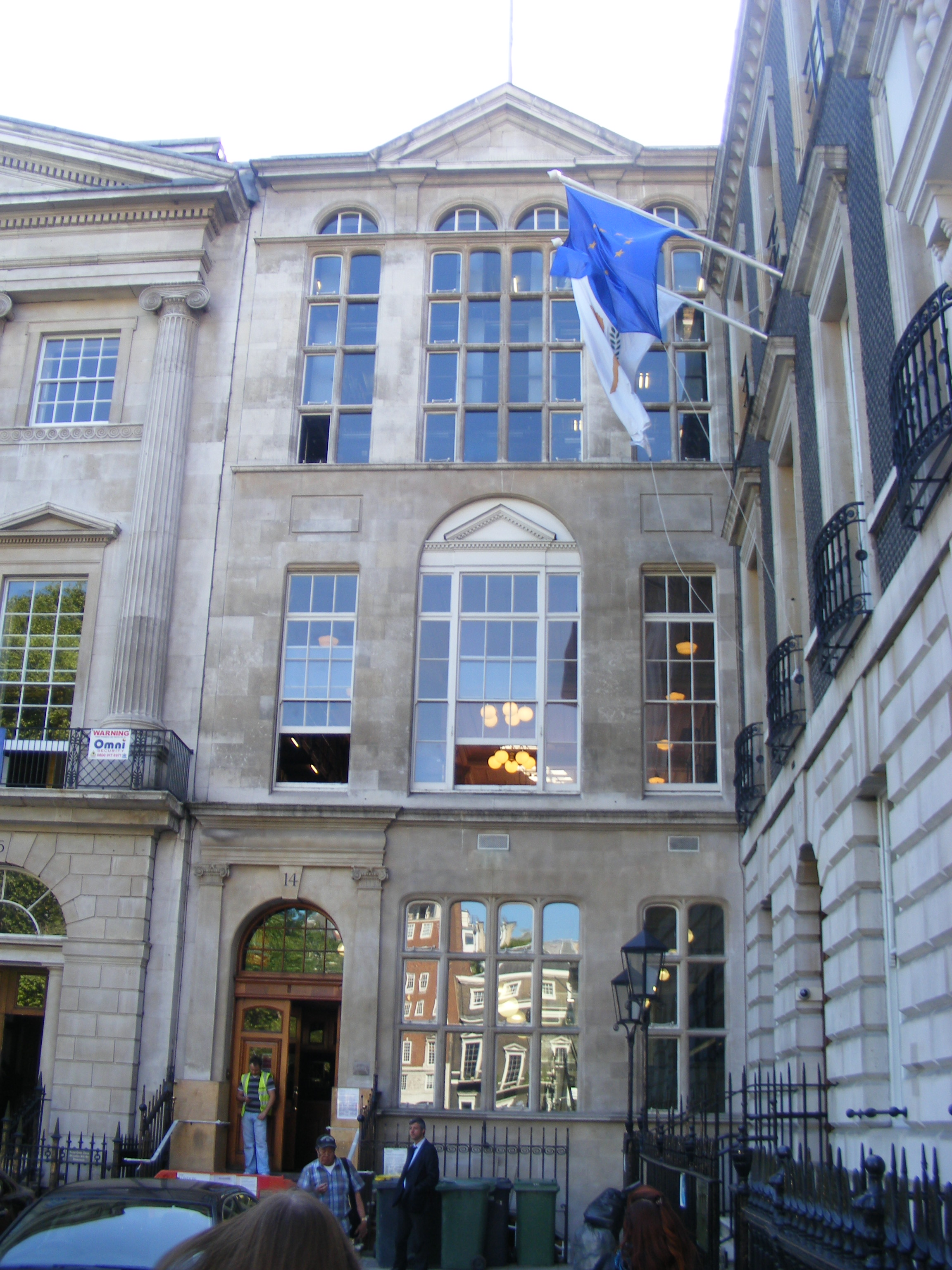 The London Library is the world's largest independent lending library. It is located in the City of Westminster. It was founded in 1841 by a group of men who included Thomas Carlyle, who was dissatisfied with some of the policies at the British Library. Membership is open to all, on payment of an annual subscription. The library now has some 7,000 members, mostly private individuals, and retains a club-like atmosphere.